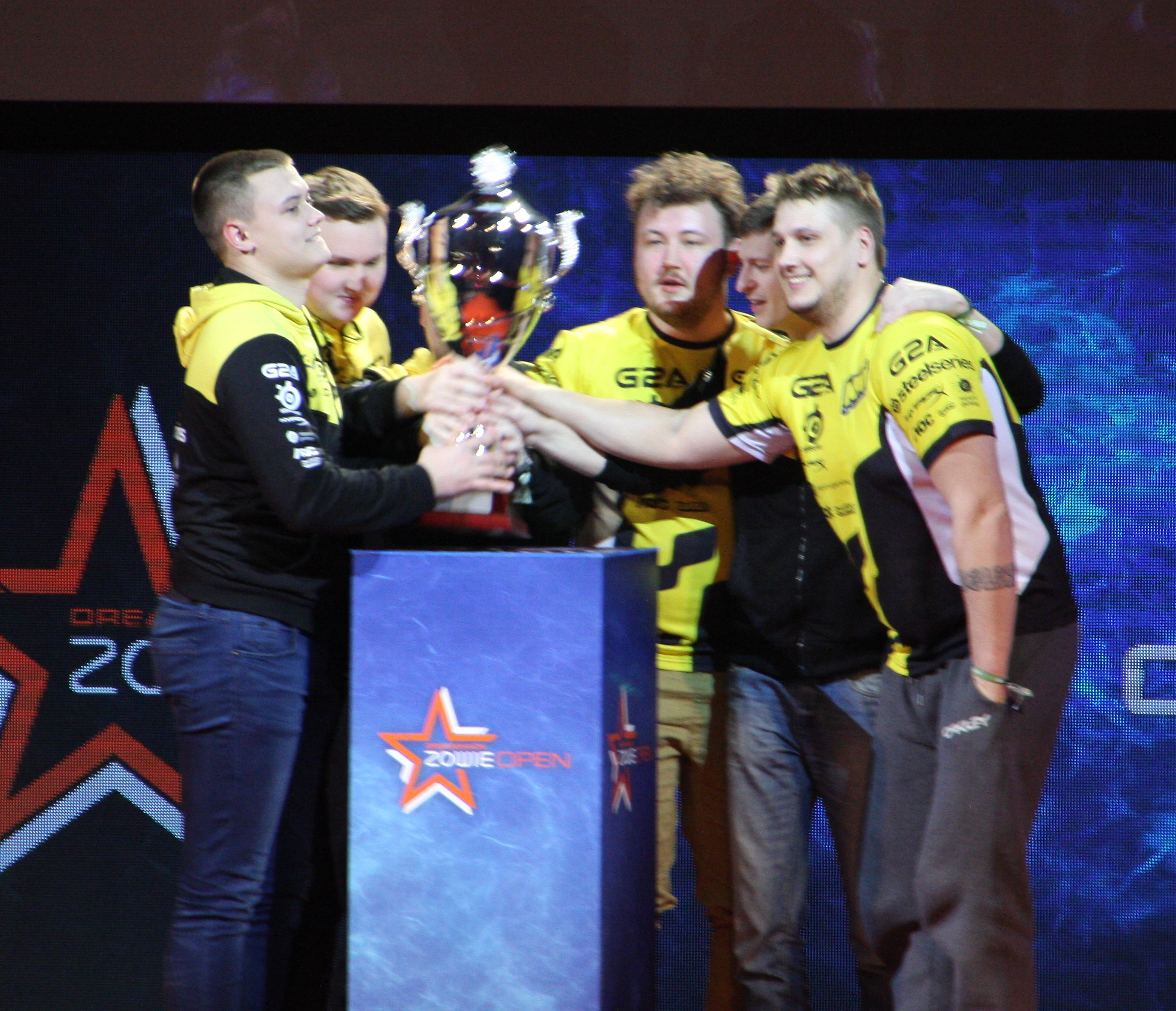 Counter Strike team "Natus Vincere" (NaVi) after winning the CS:GO tournament at DreamHack Leipzig 2016